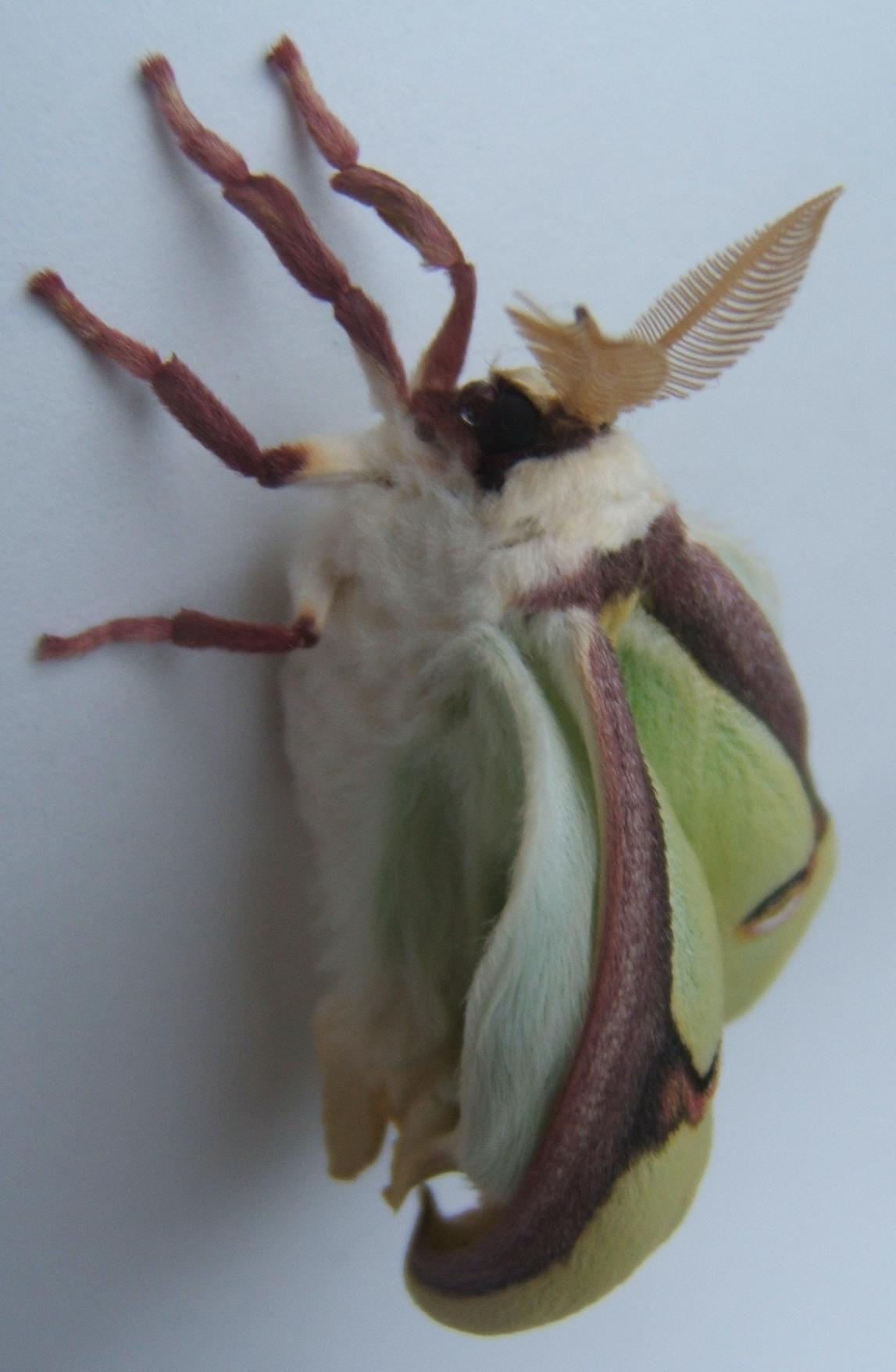 Actias luna taken by Shawn Hanrahan and reared on American Sweetgum.